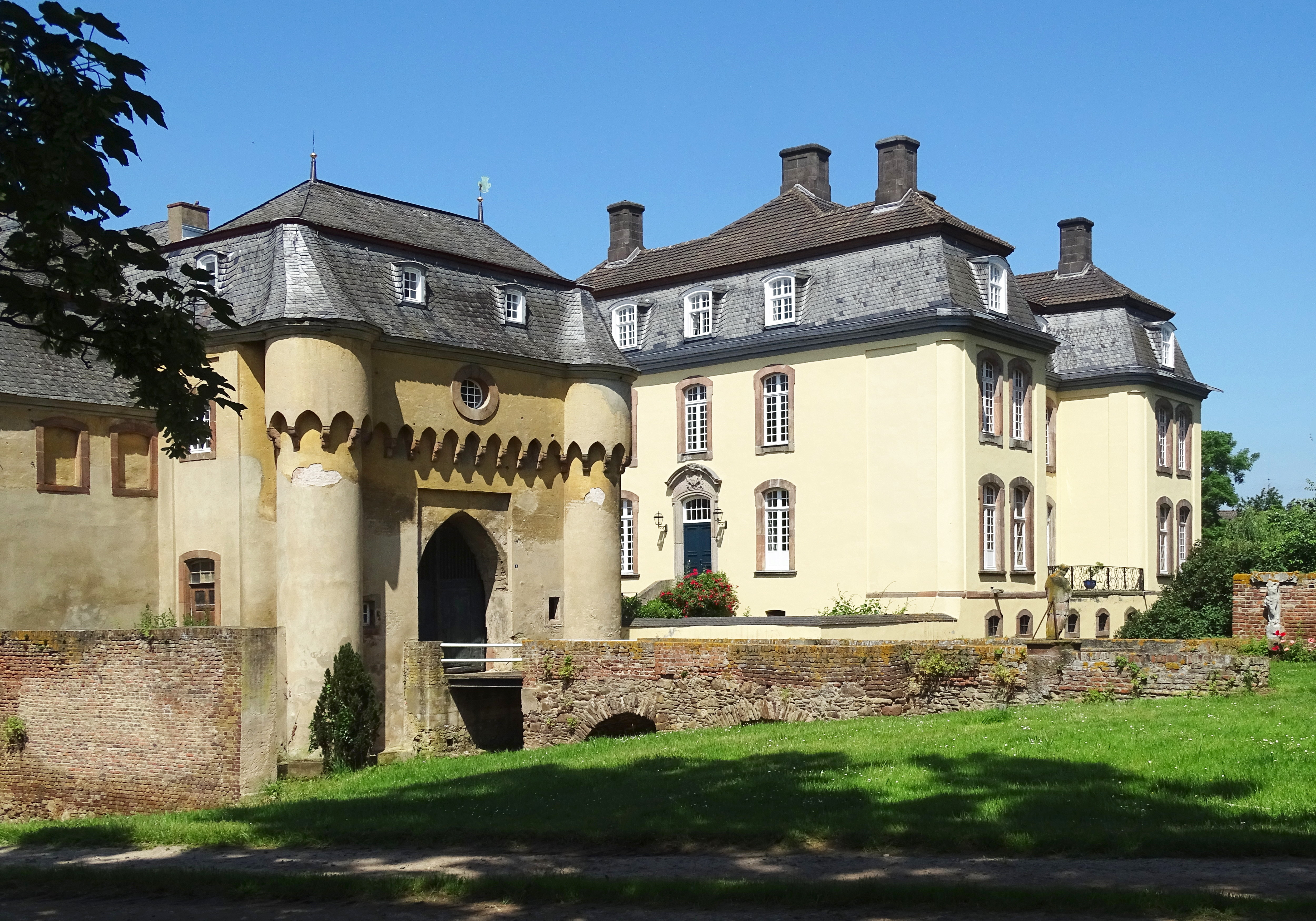 Große Burg Kleinbüllesheim in Kleinbüllesheim, Paulstraße/Luxemburger Straße. East side: mansion and gatehouse